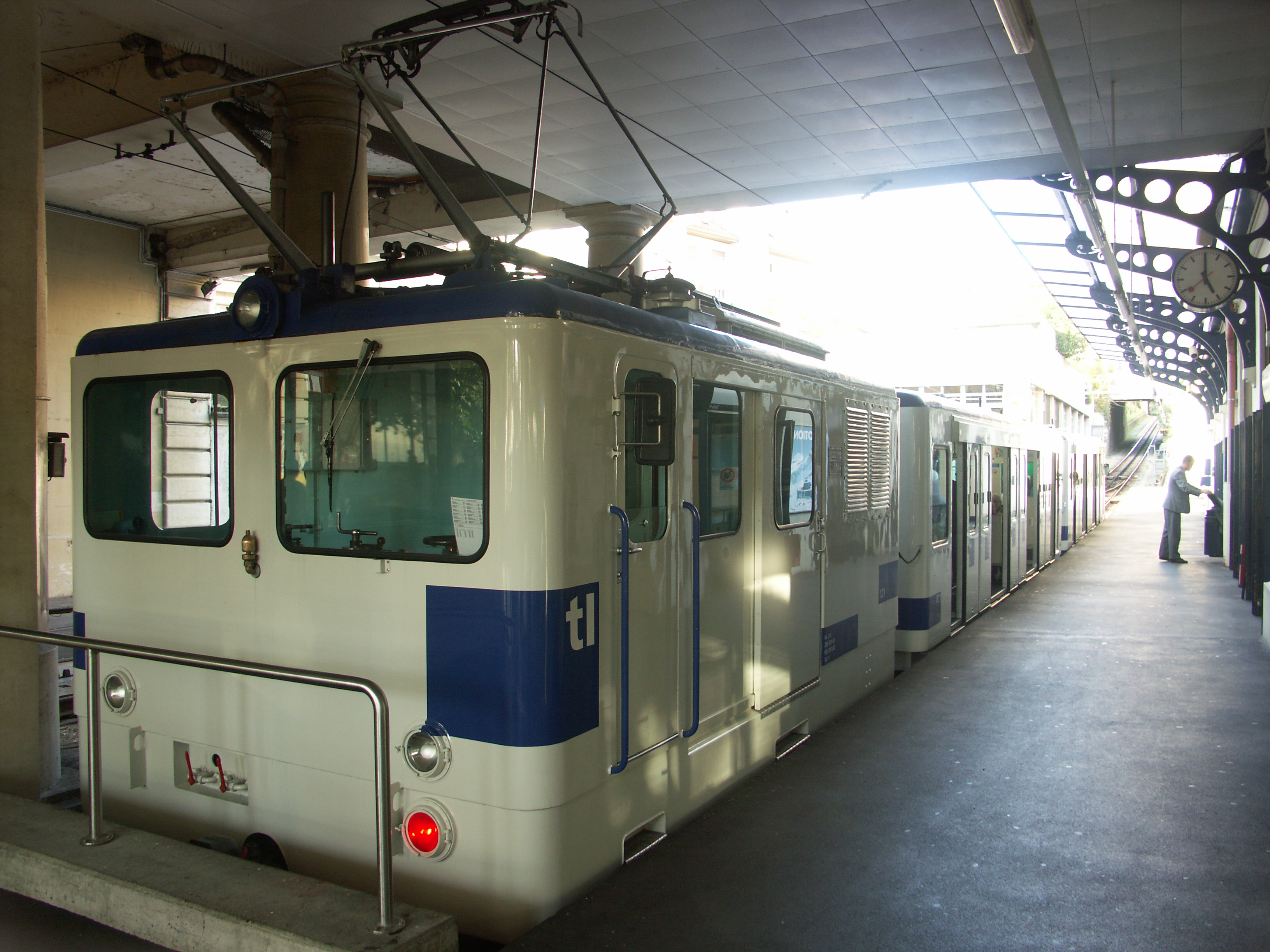 Train He 2/2